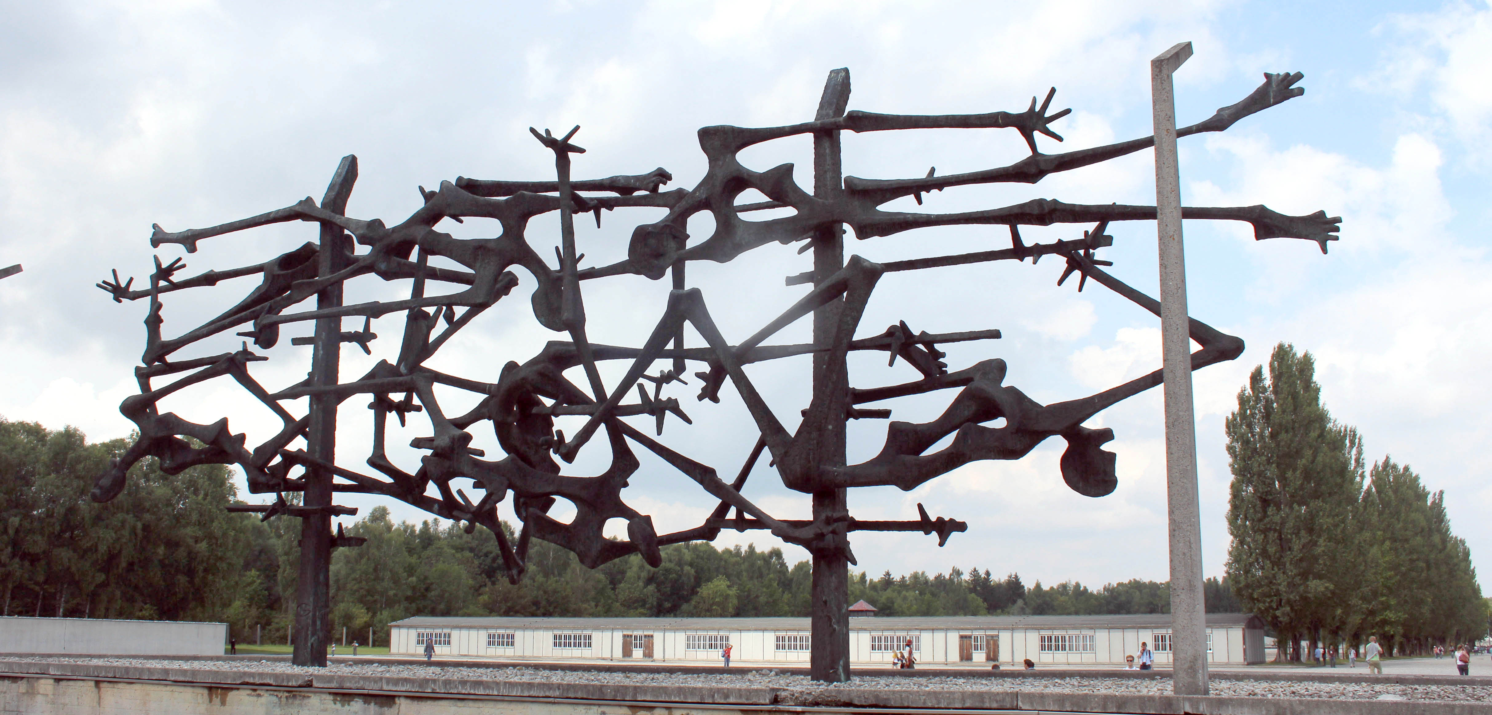 Photo by Marcia Stubbeman, 5221 Dunewood Way, Avon, IN 46123 317-509-3788